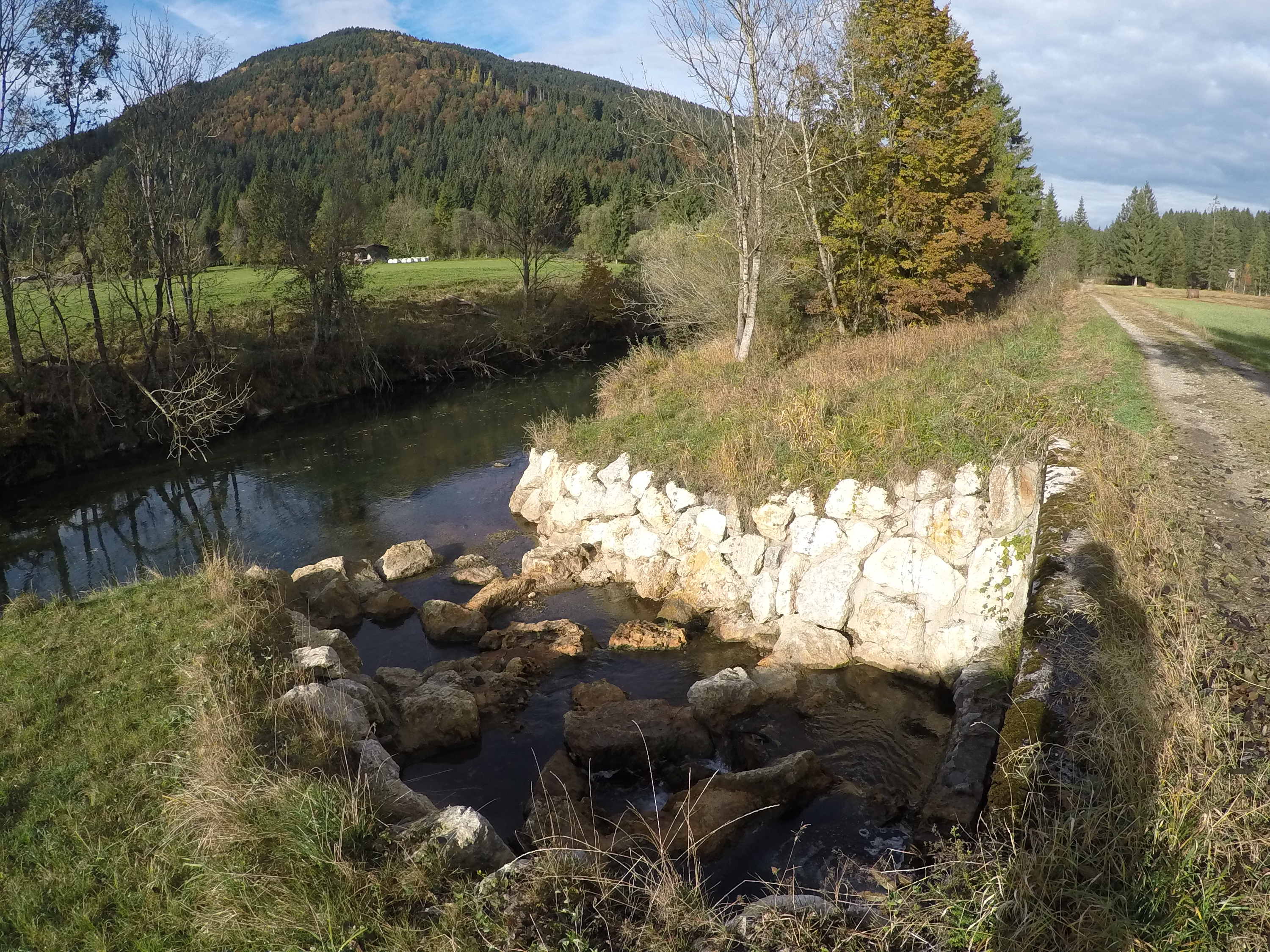 Waldlaine (Ammer), Bavaria